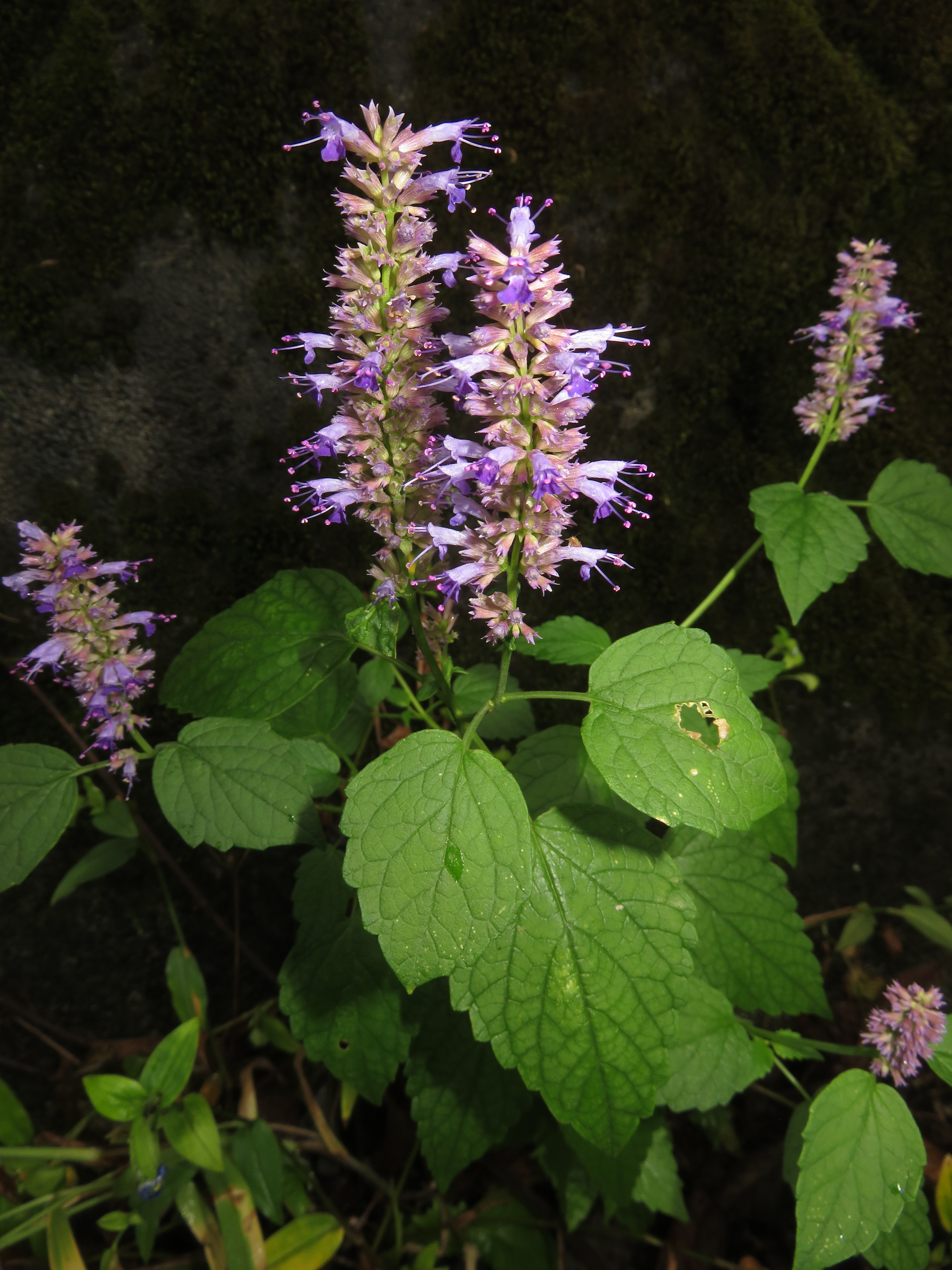 Agastache rugosa, Aizu area, Fukushima pref., Japan